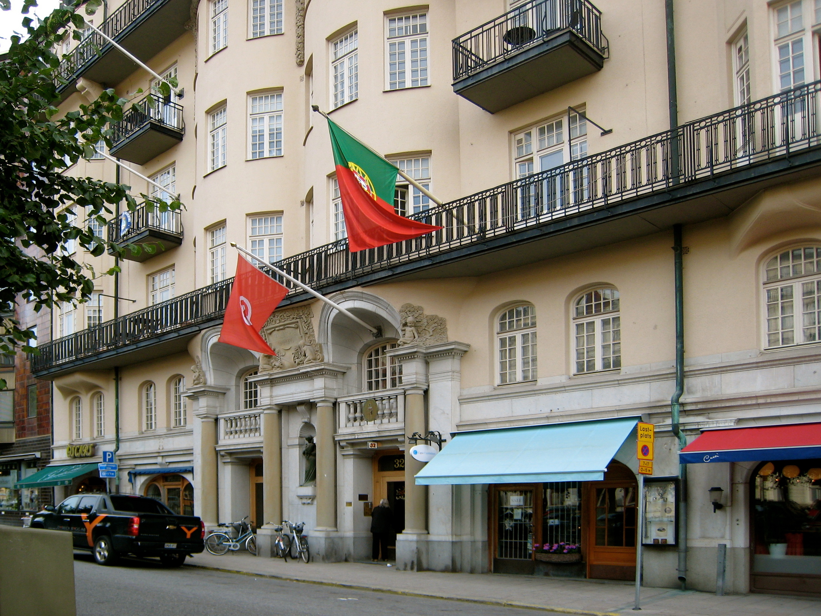 Narvavägen 30-32 (architecs Hagström & Ekman 1905). Home to Restaurant Casis (ground floor) and the Portuguese Embassy, Argentinian embassy and Tunisian Embassy in Stockholm.